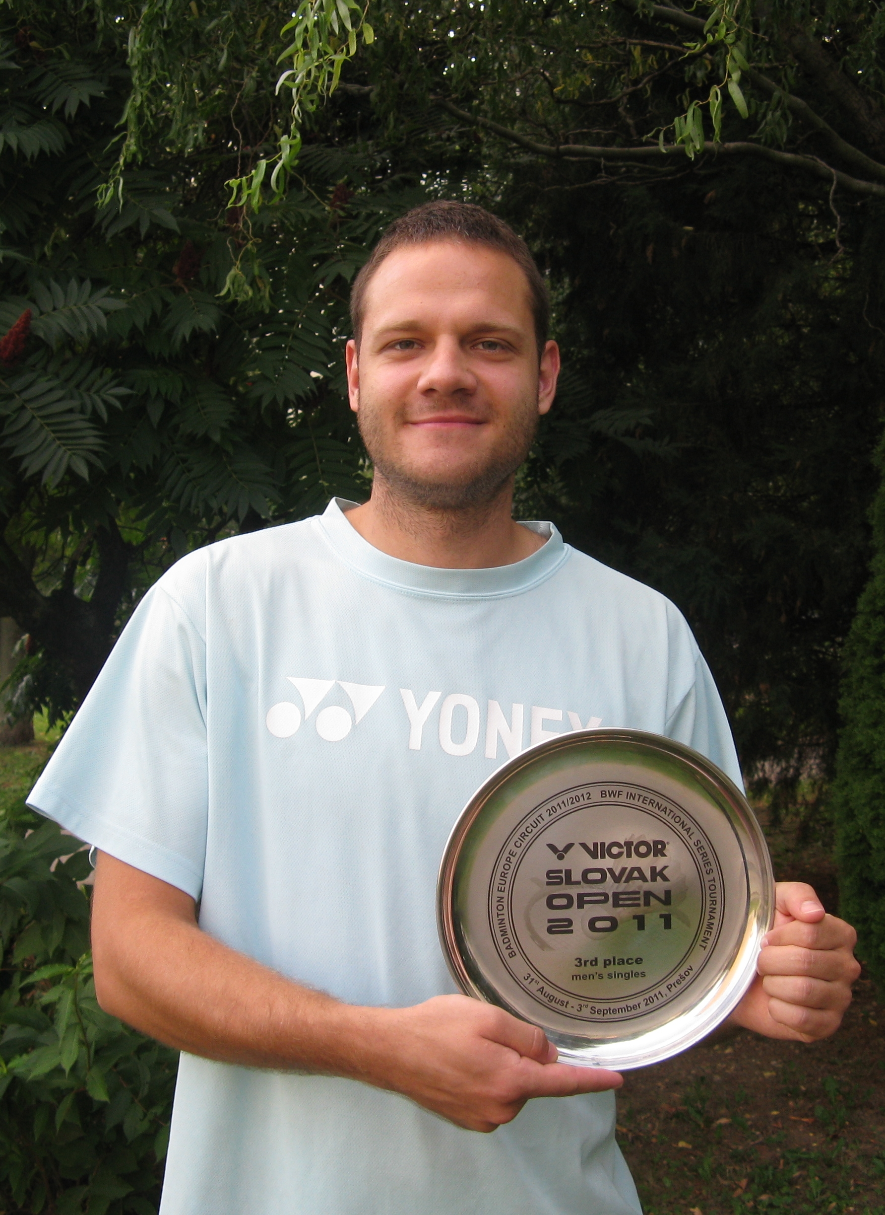 Luka with award from Victor Slovak Open 2011